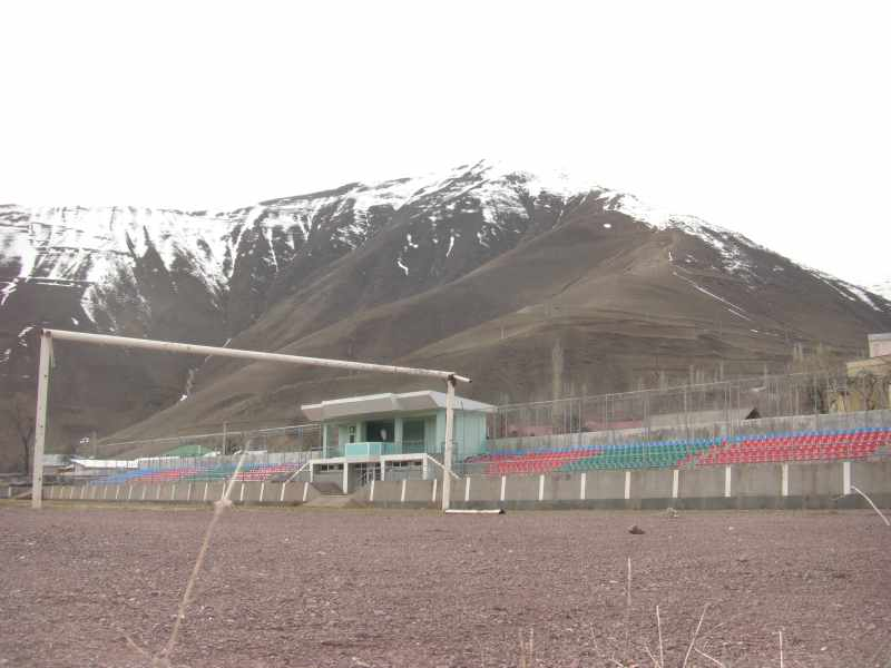 Sports stadium in Gharm, Tajikistan.